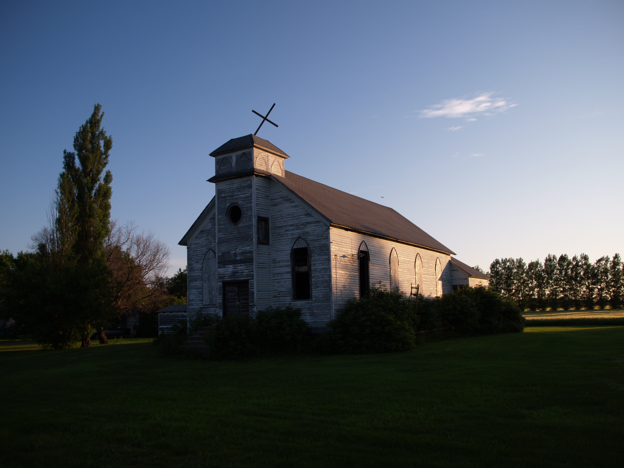 Auburn, North Dakota. From